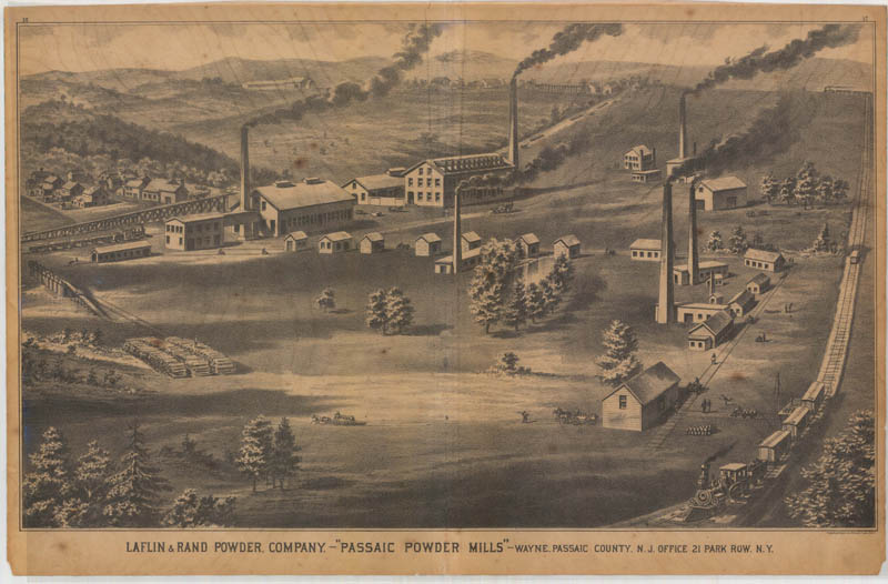 Scanned page of an atlas of Ulster County, New York prepared by F. W. Beers and first published in 1875.